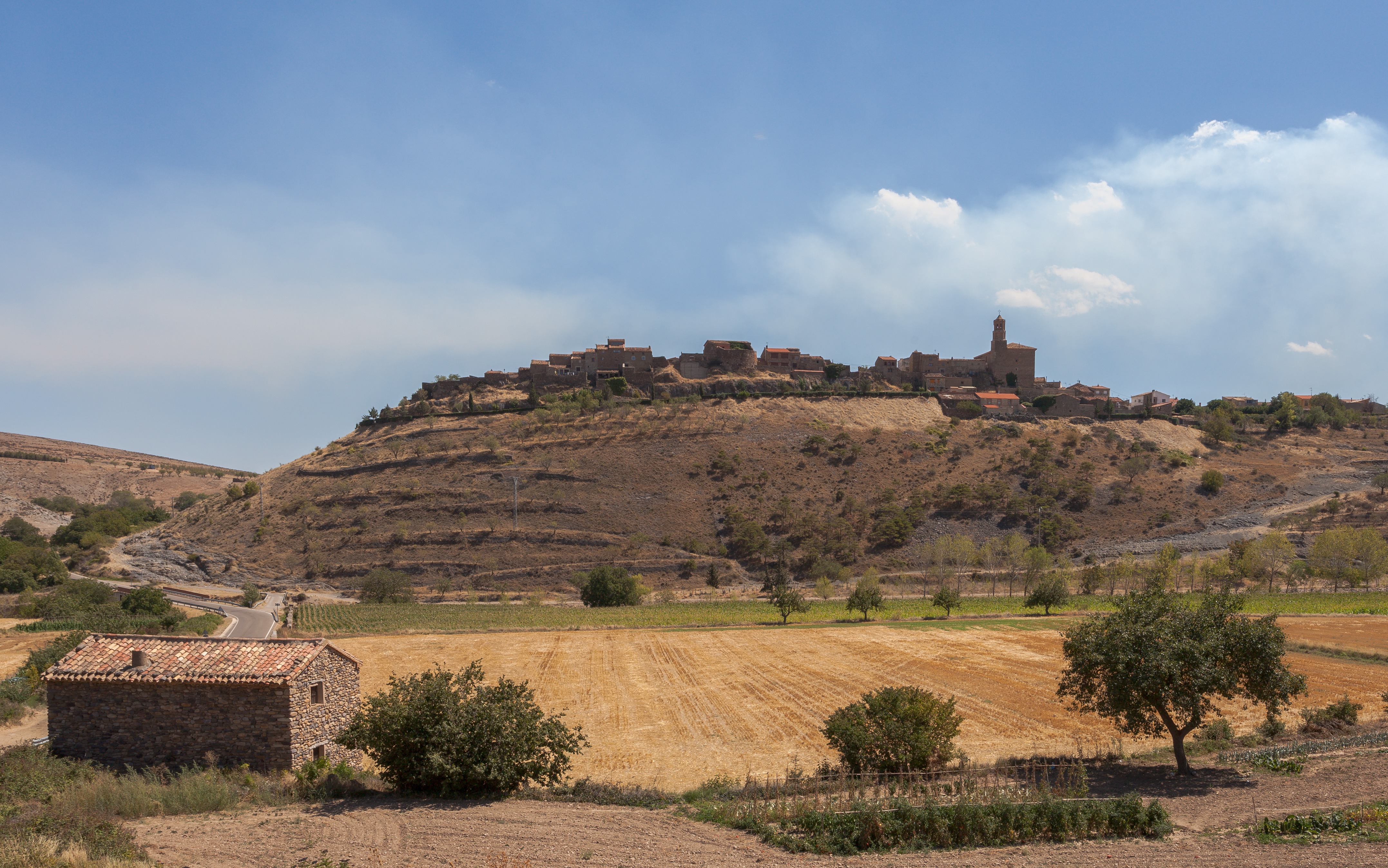 Vista de Alcalá de Moncayo, Spain